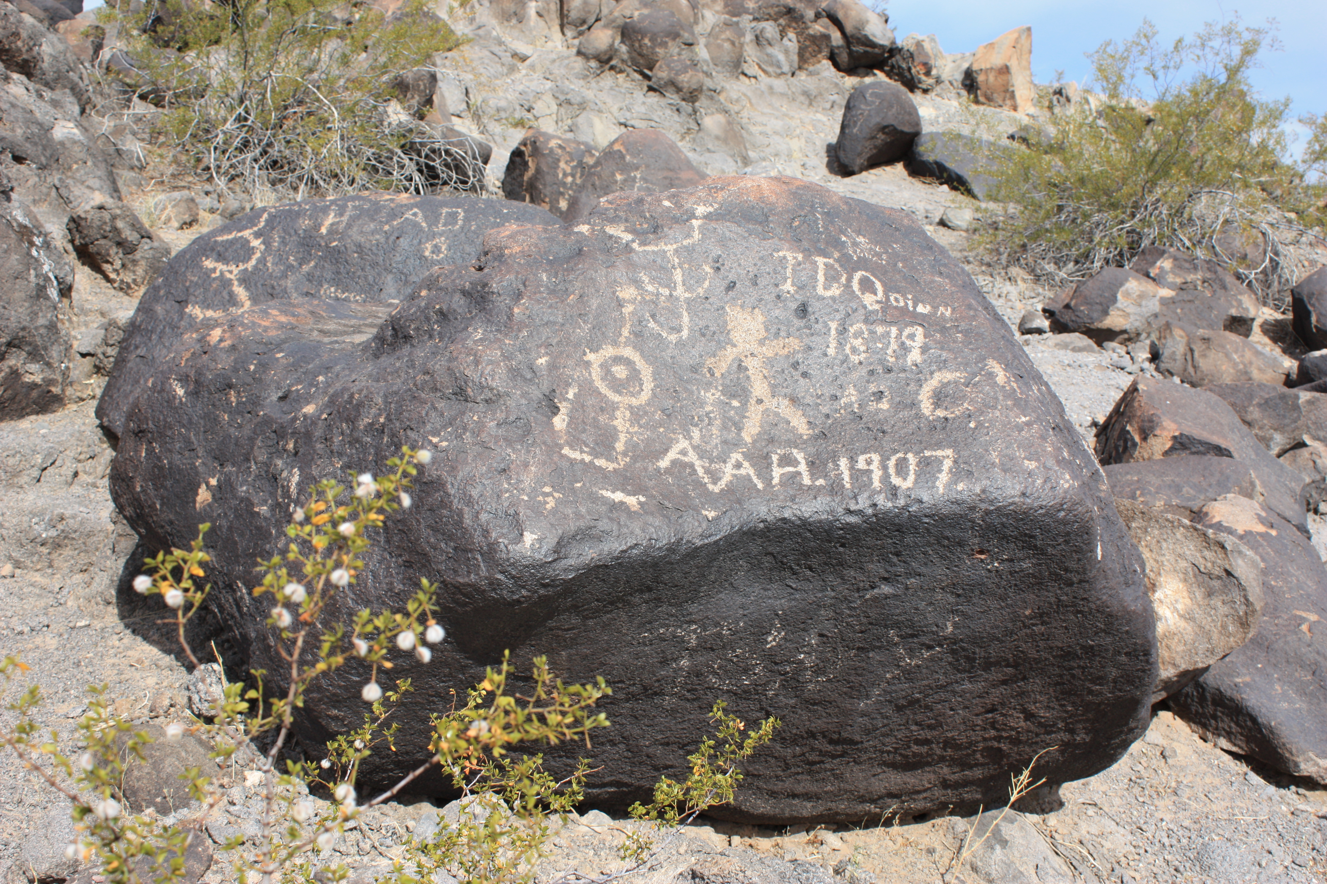 Prehistoric petroglyphs and modern inscriptions — at Painted Rock Petroglyph Site, in Maricopa County, Arizona.